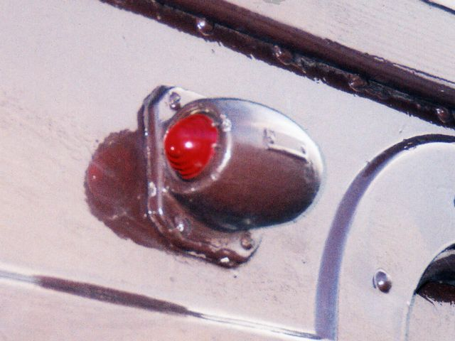 Pilot lamp of West Japan Railway Company , EMU type 42